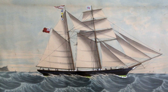 Portrait of the schooner Jane Slade of Polruan, gouache by Anthony Lusso of Genoa, signed and dated 1887, 18 x 28.5in. This says the artist is also known as Antoine Lusson, a glass painter, but the dates don't fit in with that.